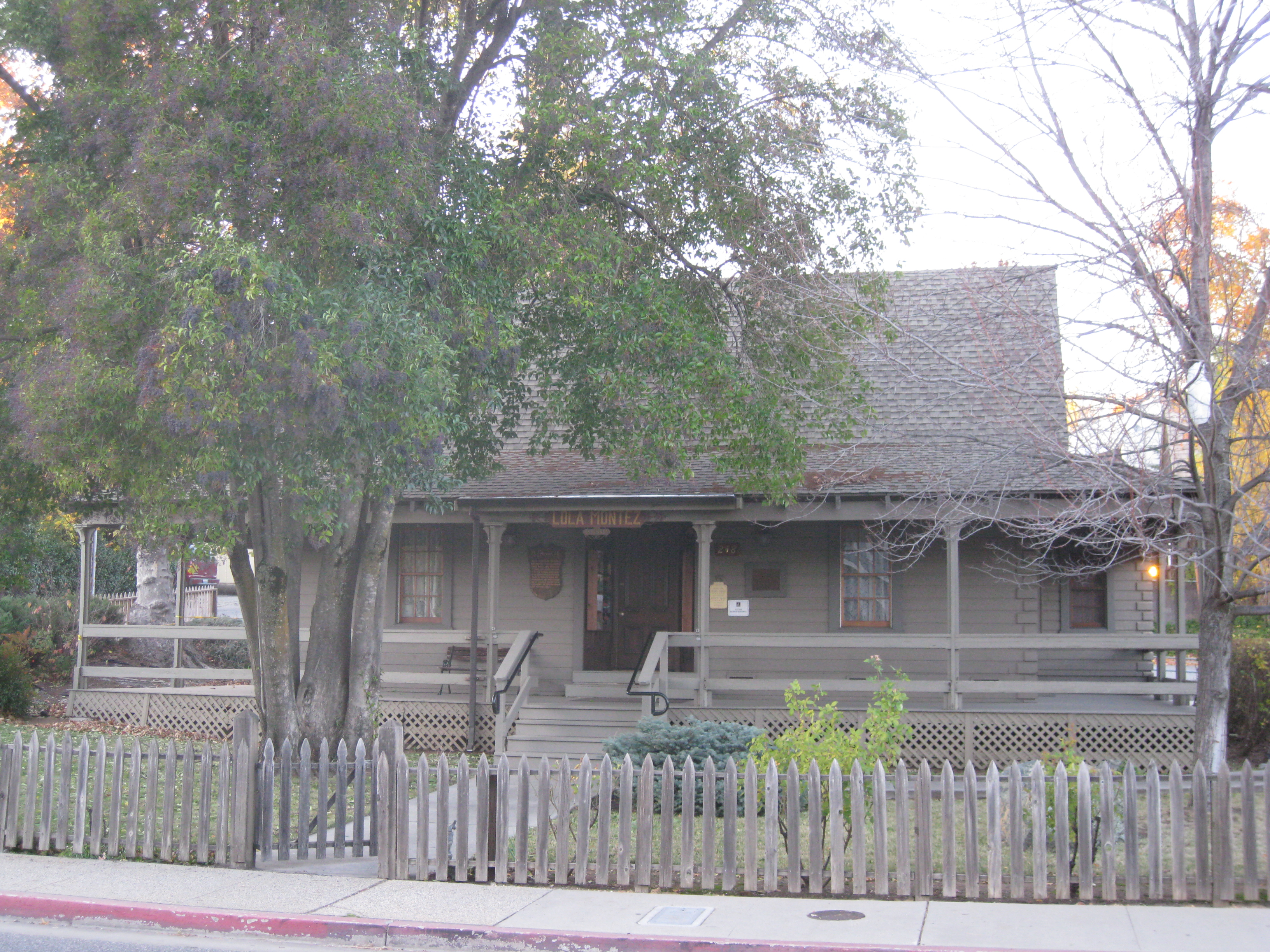 Home of Lola Montez — residence of the 19th century actress Lola Montez (1821-1861), in downtown Grass Valley, California. Built in 1851, a California Historical Landmark in Nevada County.